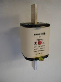 Electric Fuse